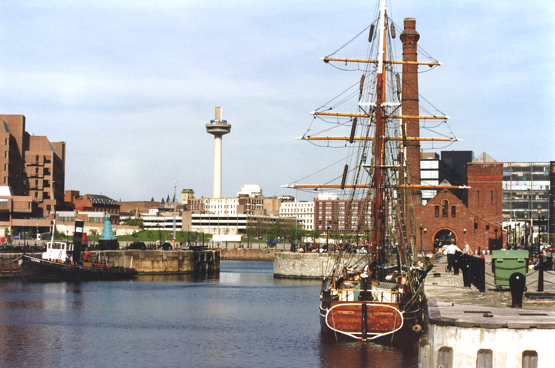 Canning Half Tide Dock, Liverpool: Canning Half Tide Dock in Liverpool, England.